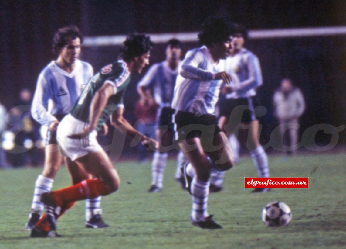 Argentina v Mexico at Los Angeles Memorial Coliseum